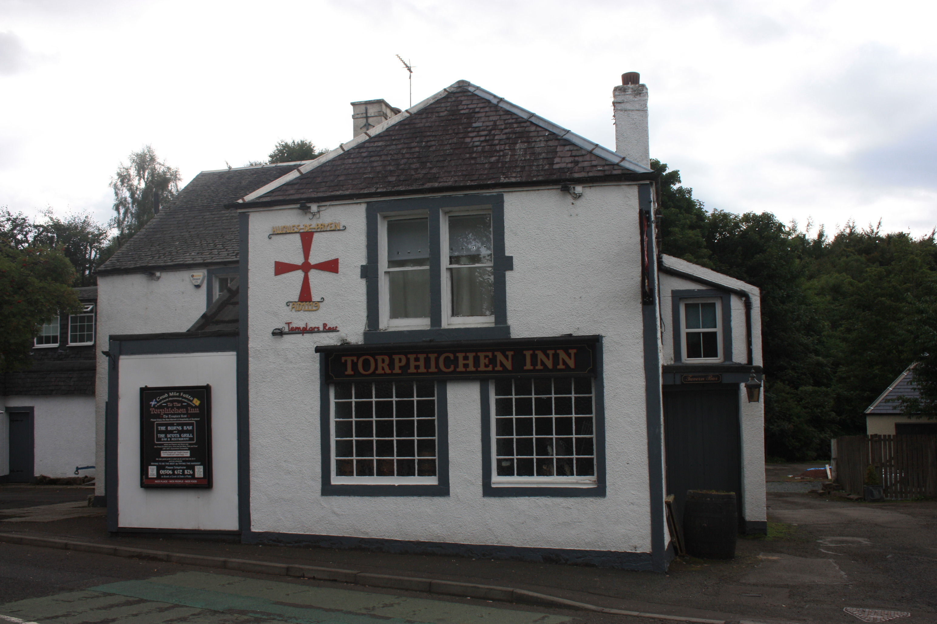 Torphichen Inn